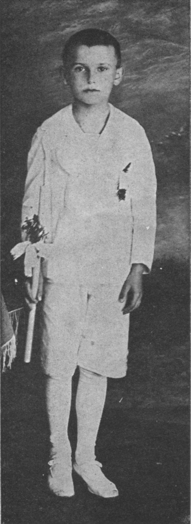 Karol Wojtyła - first Holy Communion